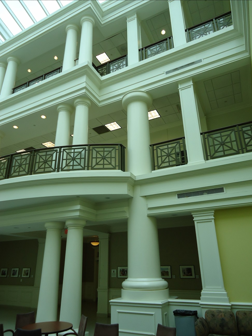 Atrium. Campus view of The College of New Jersey or TCNJ, in Ewing, New Jersey.